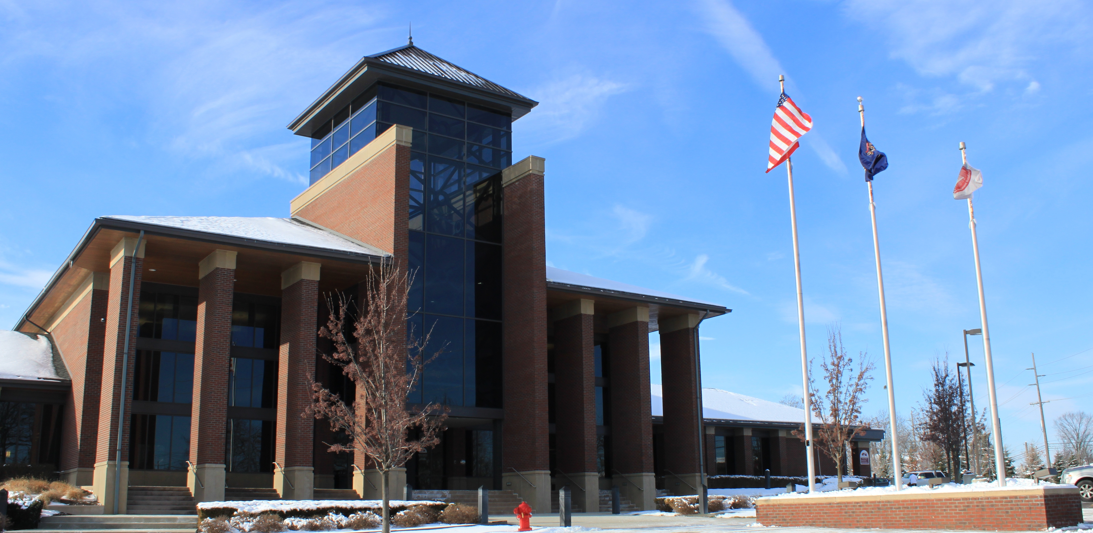 Northville Charter Township Michigan Municipal Building, 44405 Six Mile Road